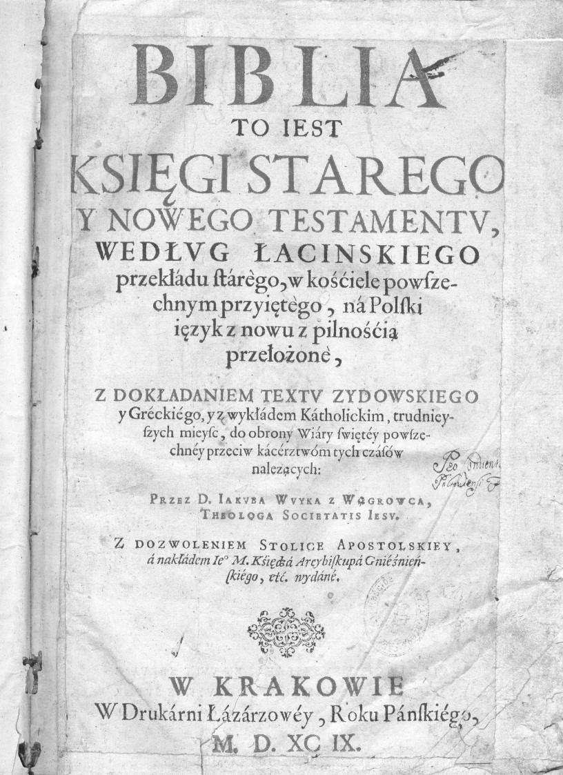 Cover page of Jakub Wujek Bible, 1599